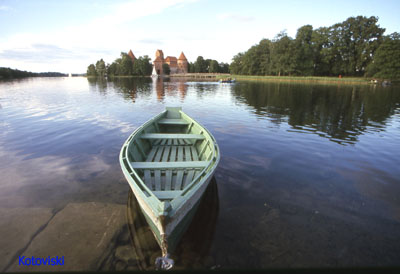 The lake and the castle of Trakai, Lithuania Photograph by Henryk Kotowski